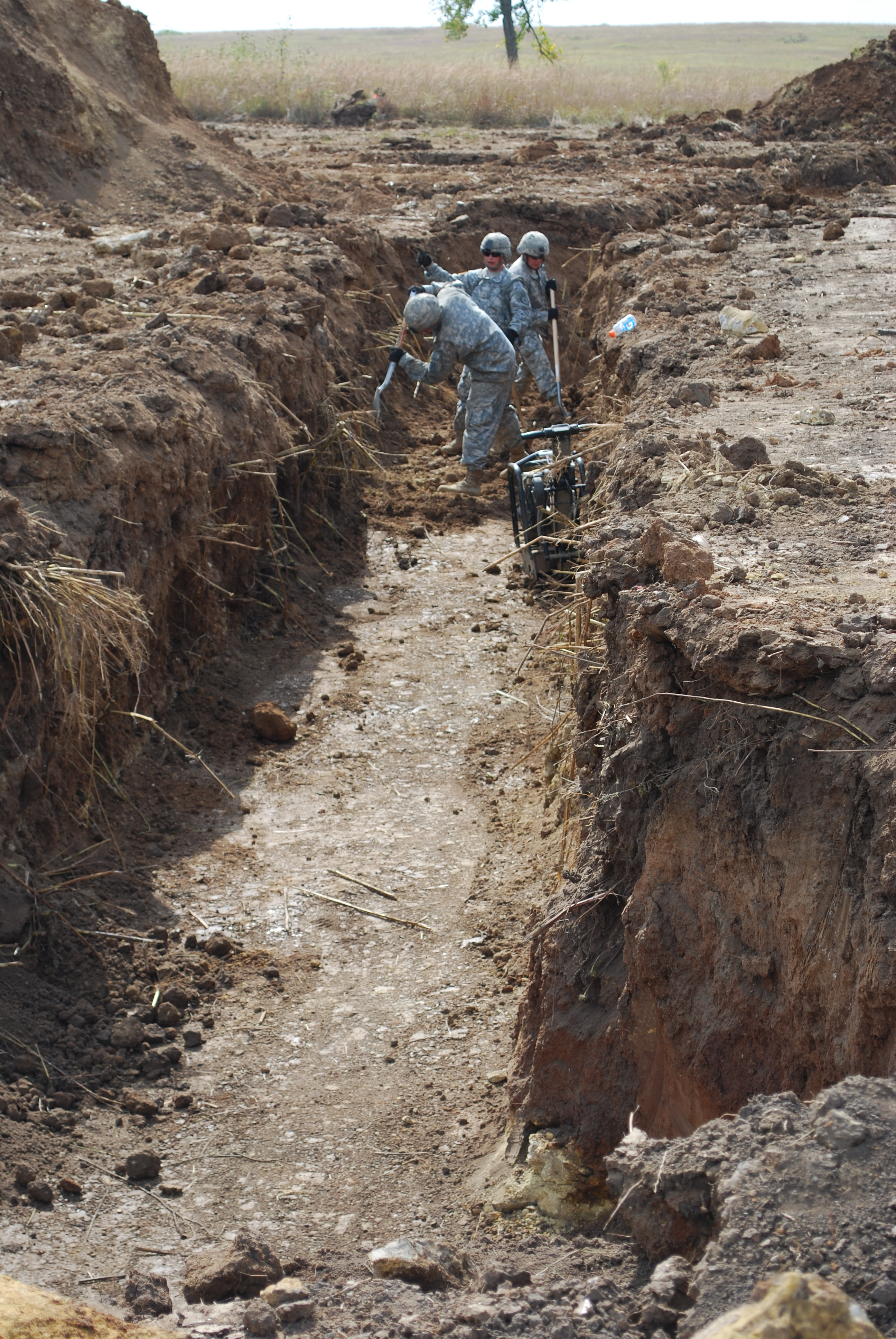 Soldiers from the 94th Engineer Battalion out of Fort Leonard Wood, Mo. work on a new trench system at Range 53 at Fort Riley, Kan. The project is scheduled to be completed Oct. 16.